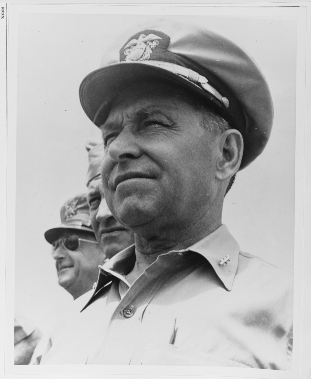 Vice Admiral John H. Newton, USN, is shown at Noumea, New Caldonia, in 1943.